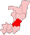 Map of the Republic of the Congo showing Plateaux region.